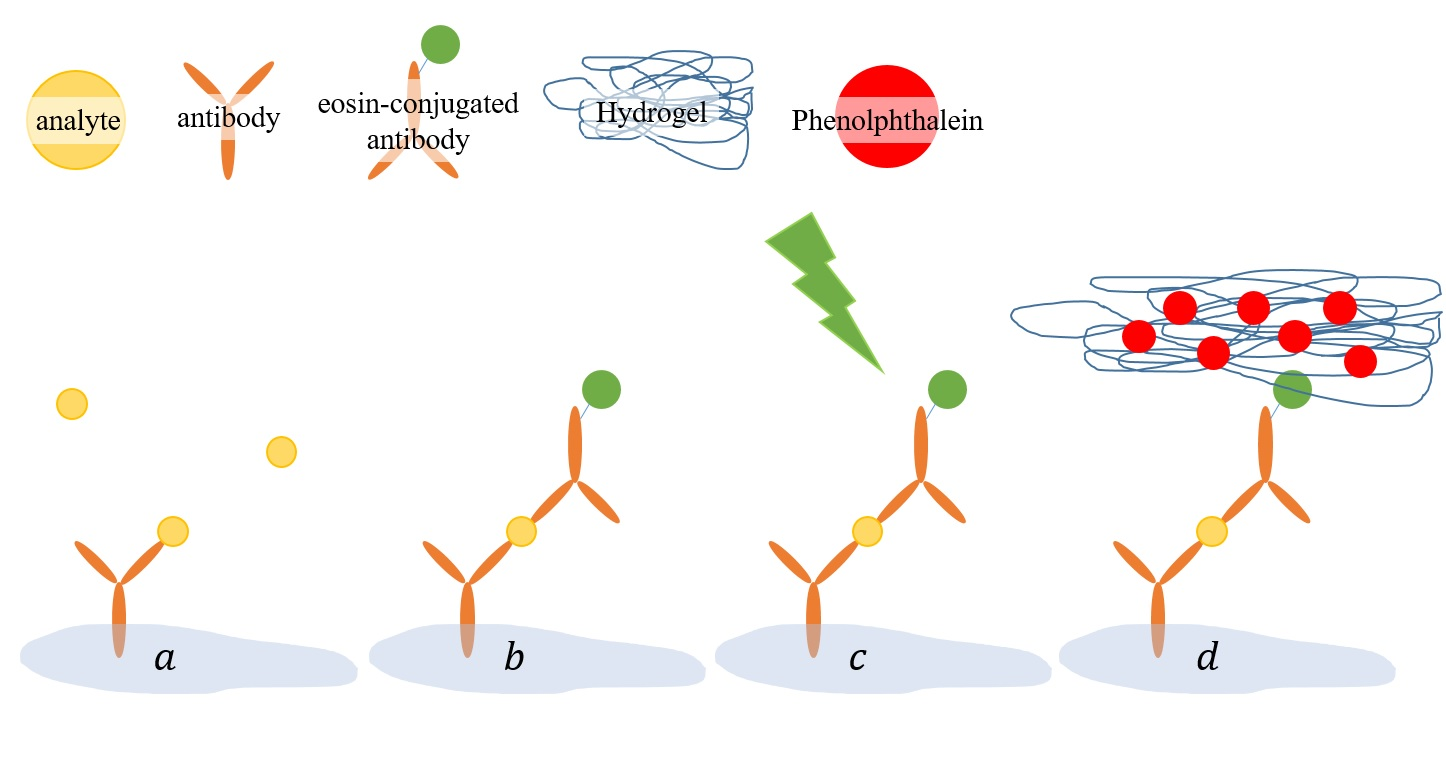 Schematic description of photopolymerization-based signal amplification. First, antigens bind with immobilized antibody on the surface. Second, capture antibodies are added and they specifically bind with antigens bound to immobilized antibodies. Third, green light is irradiated. Finally, photopolymerization takes place and phenolphthalein is trapped in the hydrogel formed by polymerization.